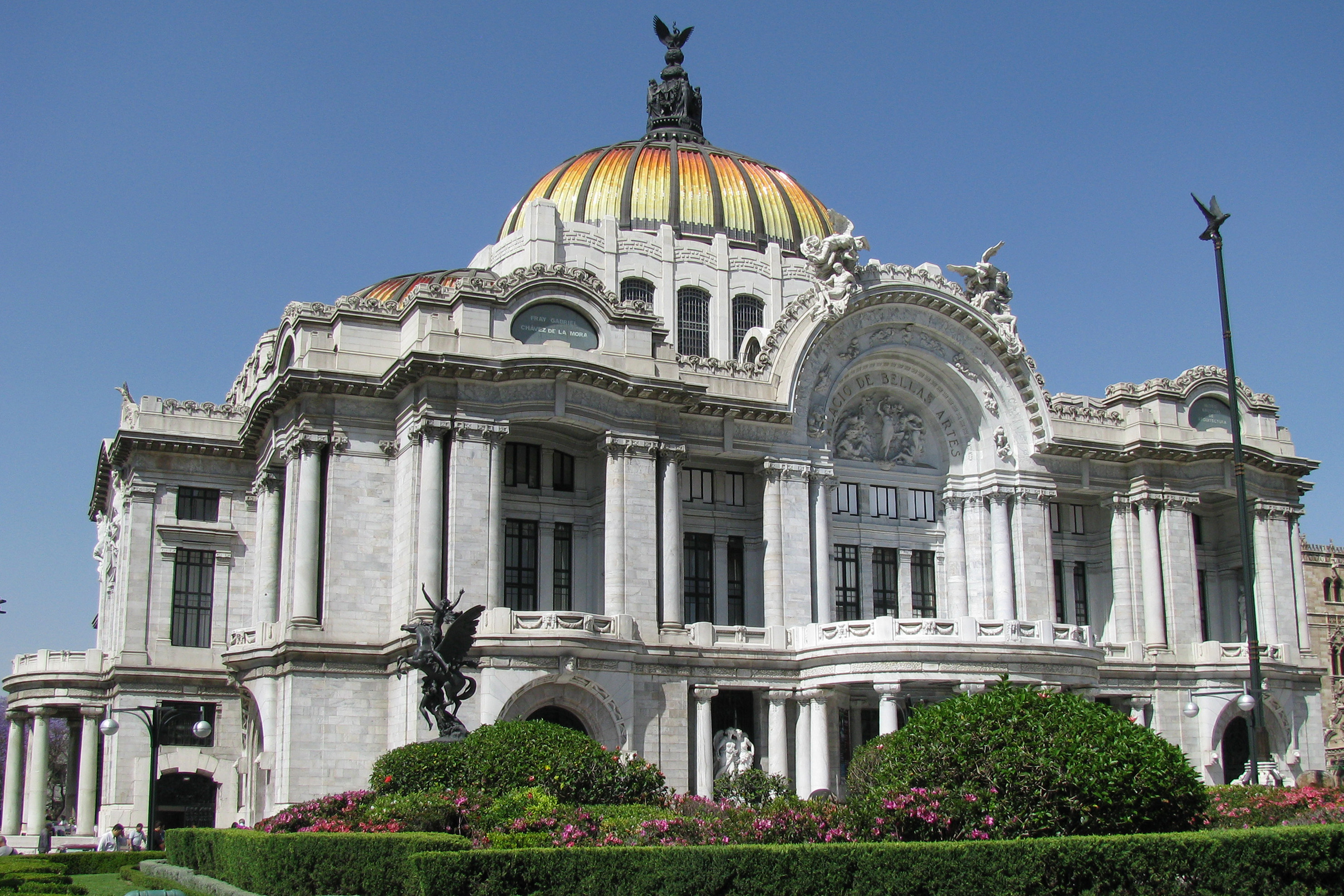 The Palacio de Bellas Artes (Palace of Fine Arts) in Mexico City in March, 2010